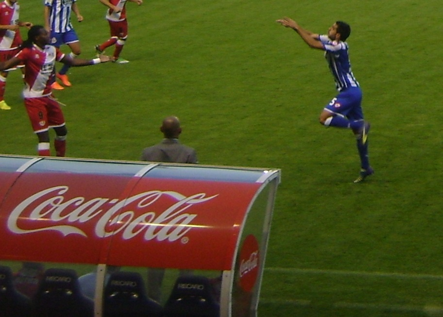 Paco Jémez